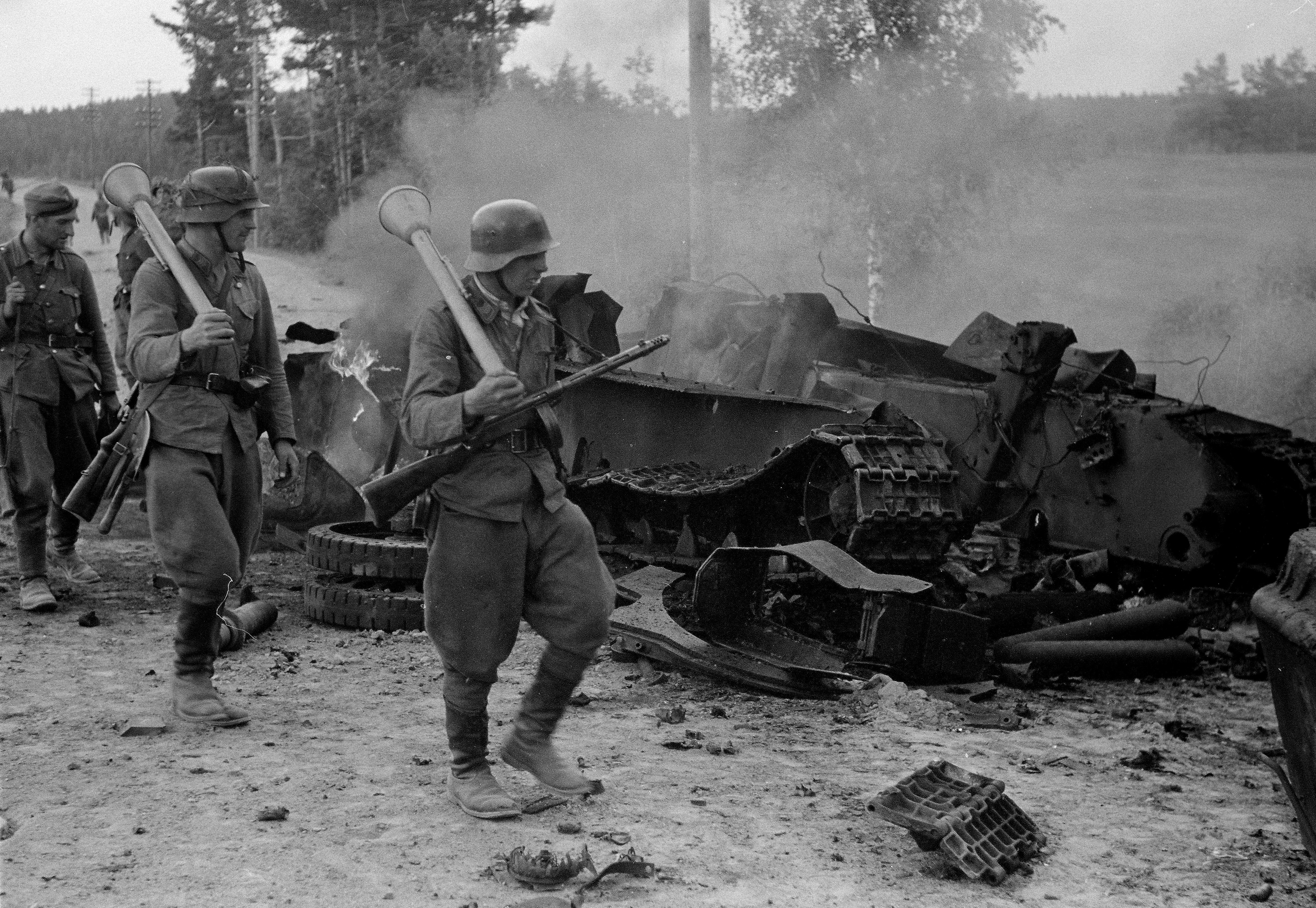 Finnish soldiers of Infantry Regiment 12 inspect a destroyed Soviet T-34 tank destroyed by a German assault gun during the Battle of Tali-Ihantala in northern Vyborg. From left, jaeger Eino Heikkilä, sergeant Kalle Niemelä and sergeant Heino Nikulassi. Niemelä and Nikulassi have Panzerfäuste on their shoulders, Nikulassi is carrying a Finnish-made Suomi KP/-31 submachine gun.